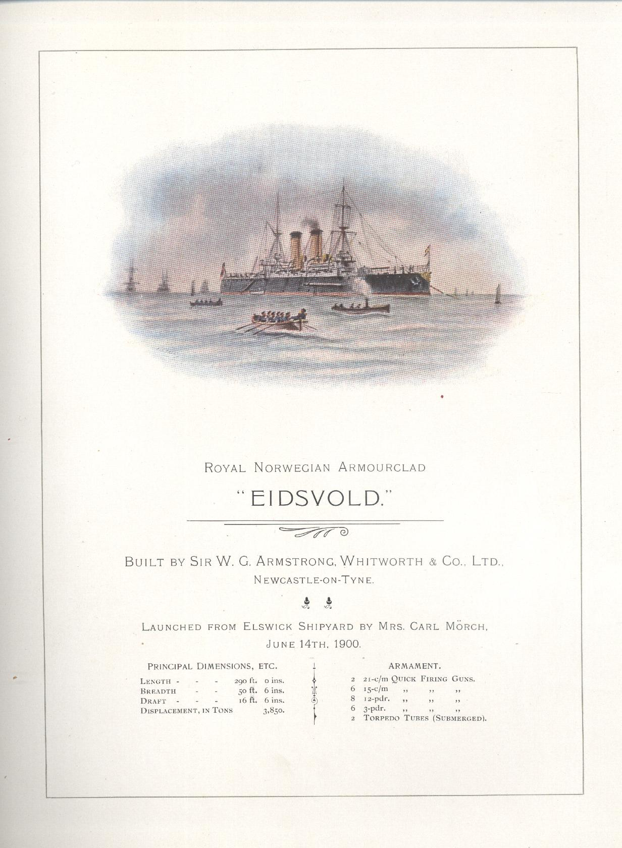 The Eidsvold launch card from June 14th 1900 at the Sir W G Armstrong Whitworth Elswick shipyard. This item of ephemera is part of Tyne & Wear Archives item 450/1.